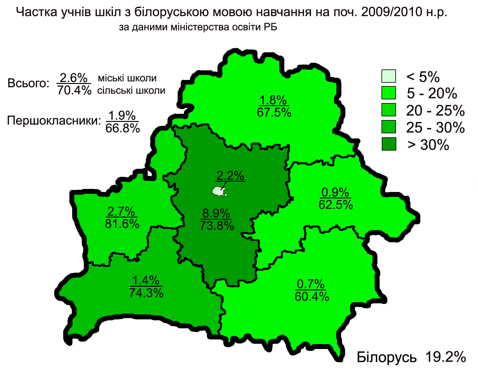 Share of students attending schools with belarusian language of education. Top - urban schools Bottom - rural schools Data from